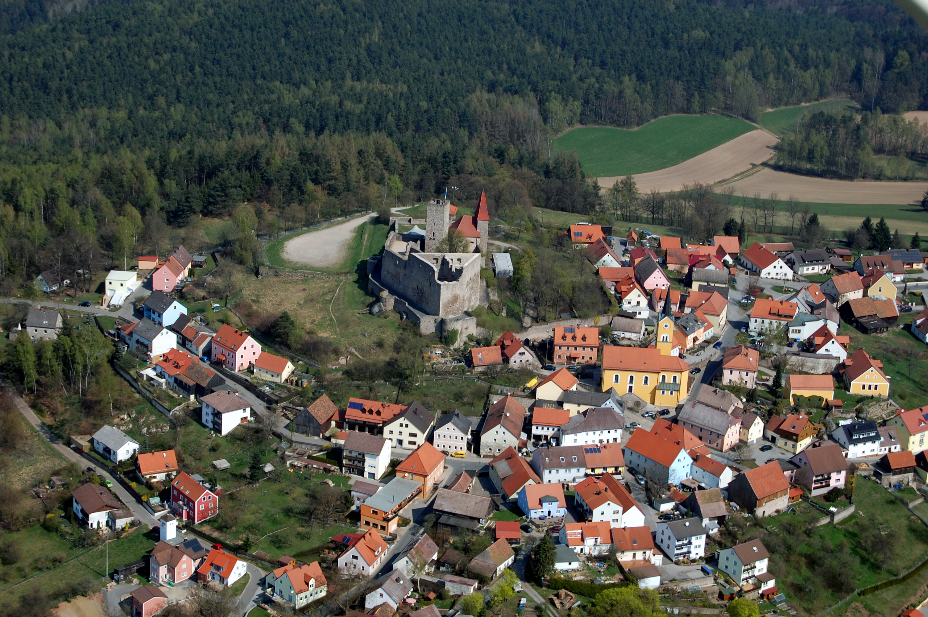 Leuchtenberg and castle